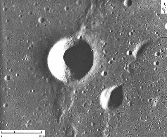 The largest crater in this picture is Aratus D in western Mare Serenitatis. Image AS15-9361 (P)